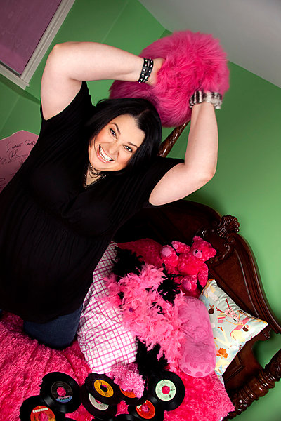 Photo is 81.7 (400 X 600)JPG